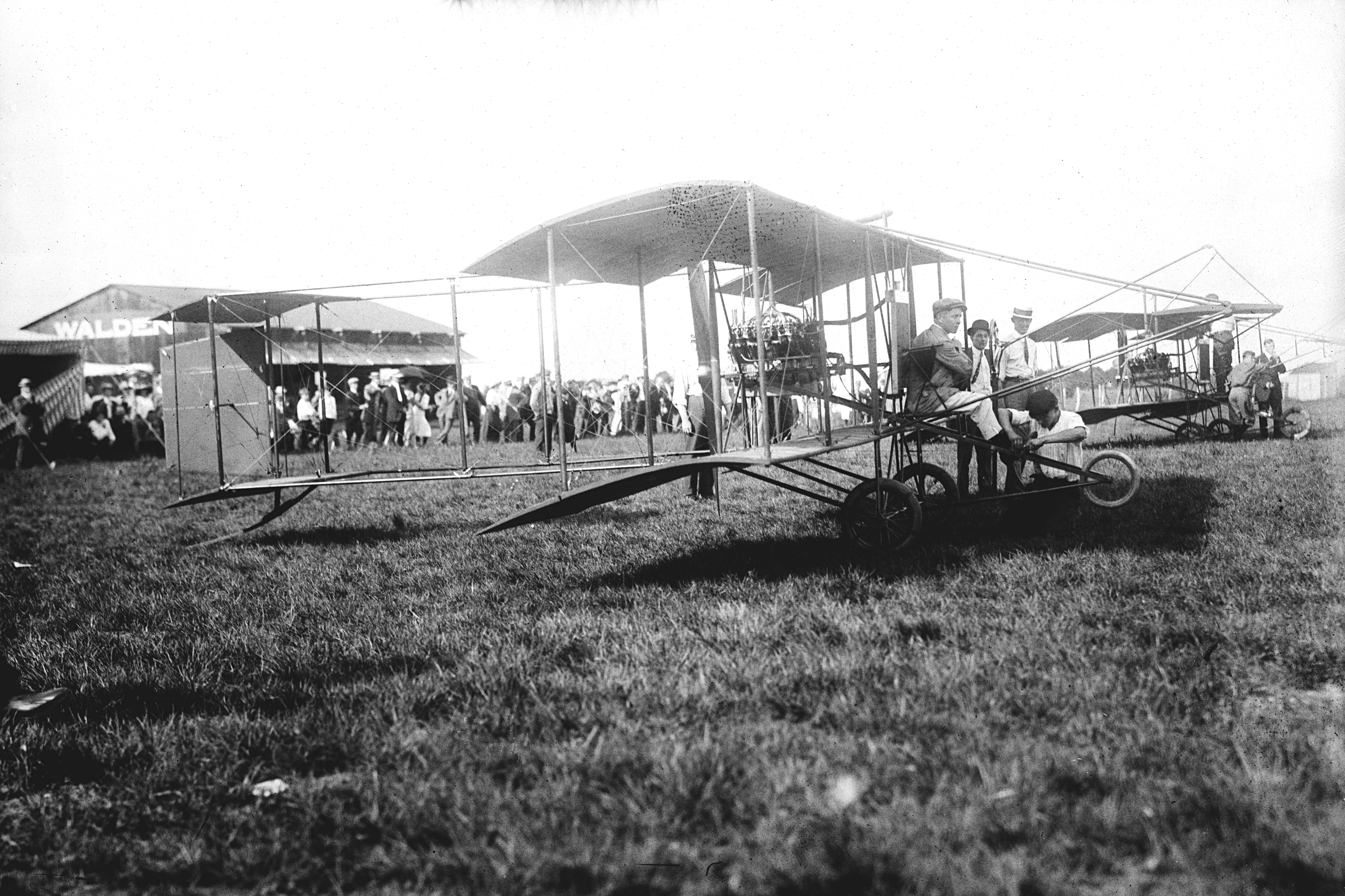 Photograph shows aviator William Badger (d. 1911) in the Baldwin "Red Devil" taken at Mineaola, Long Island, also known as the Garden City Aviation Field, 1911.